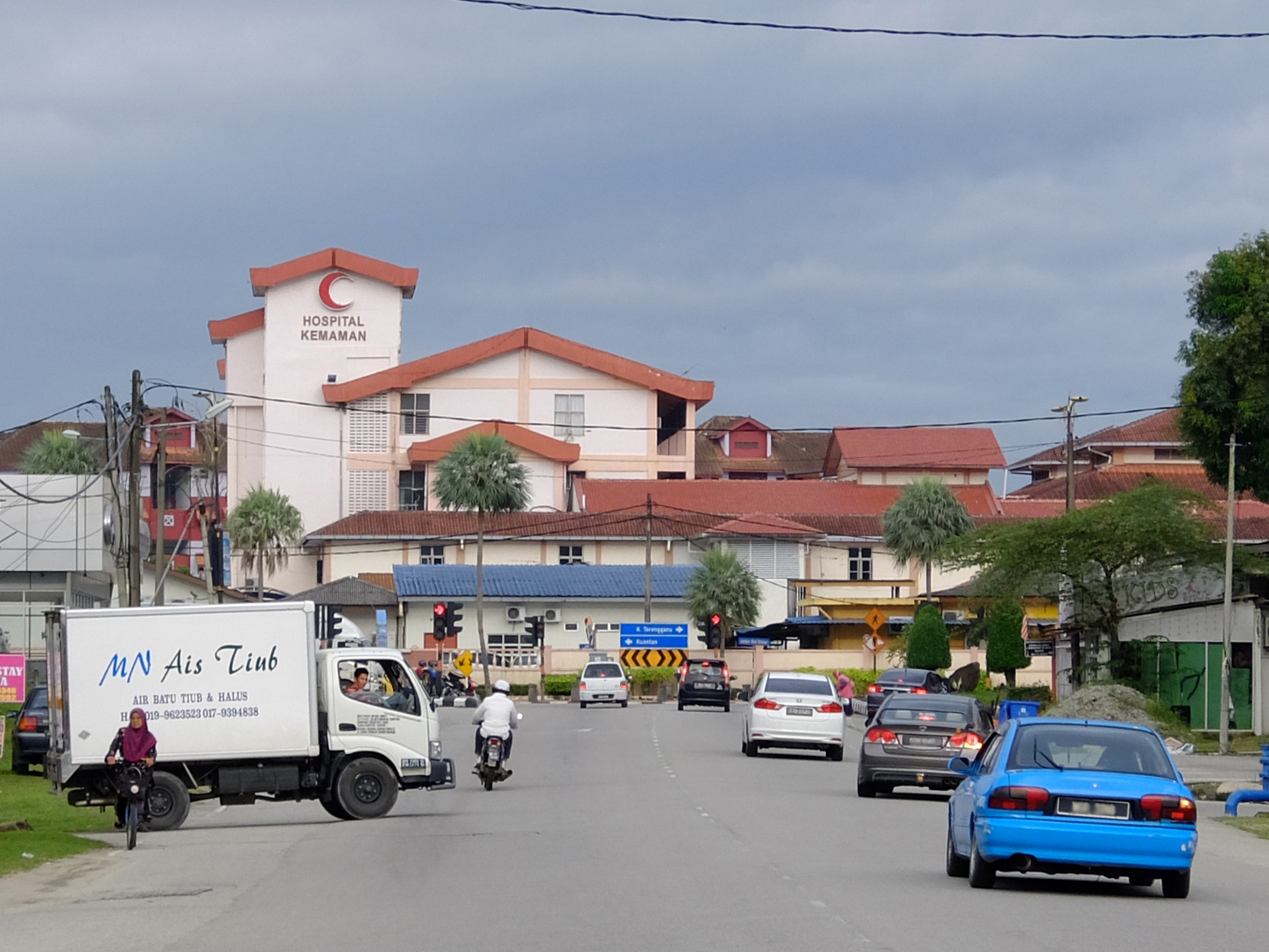 Kemaman Hospital, Chukai, Kemaman, Terengganu, Malaysia